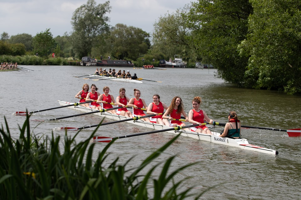 Regent's Park Women warm up before Thursday of the 2019 Summer Eights competition